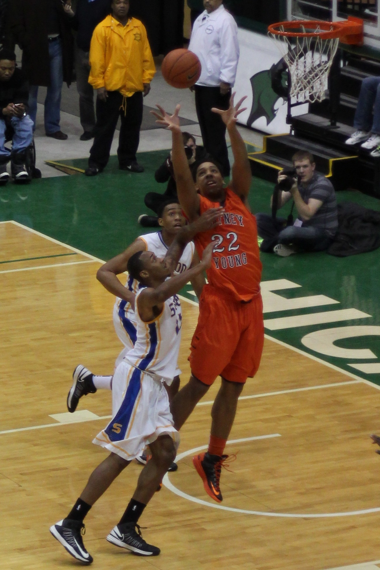 Jahlil Okafor jumps for a rebound during a Chicago Public High School League game between Simeon Career Academy and Whitney M. Young Magnet High School at the Jones Convocation Center (Russell Woods and Jabari Parker also pictured)